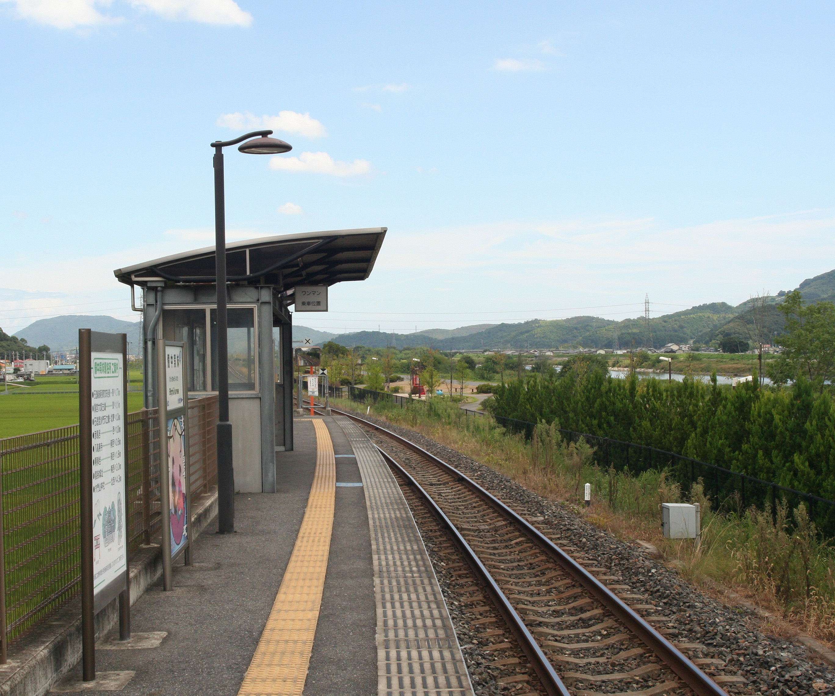 Ibara Railway Bitchū-Kurese Station platform